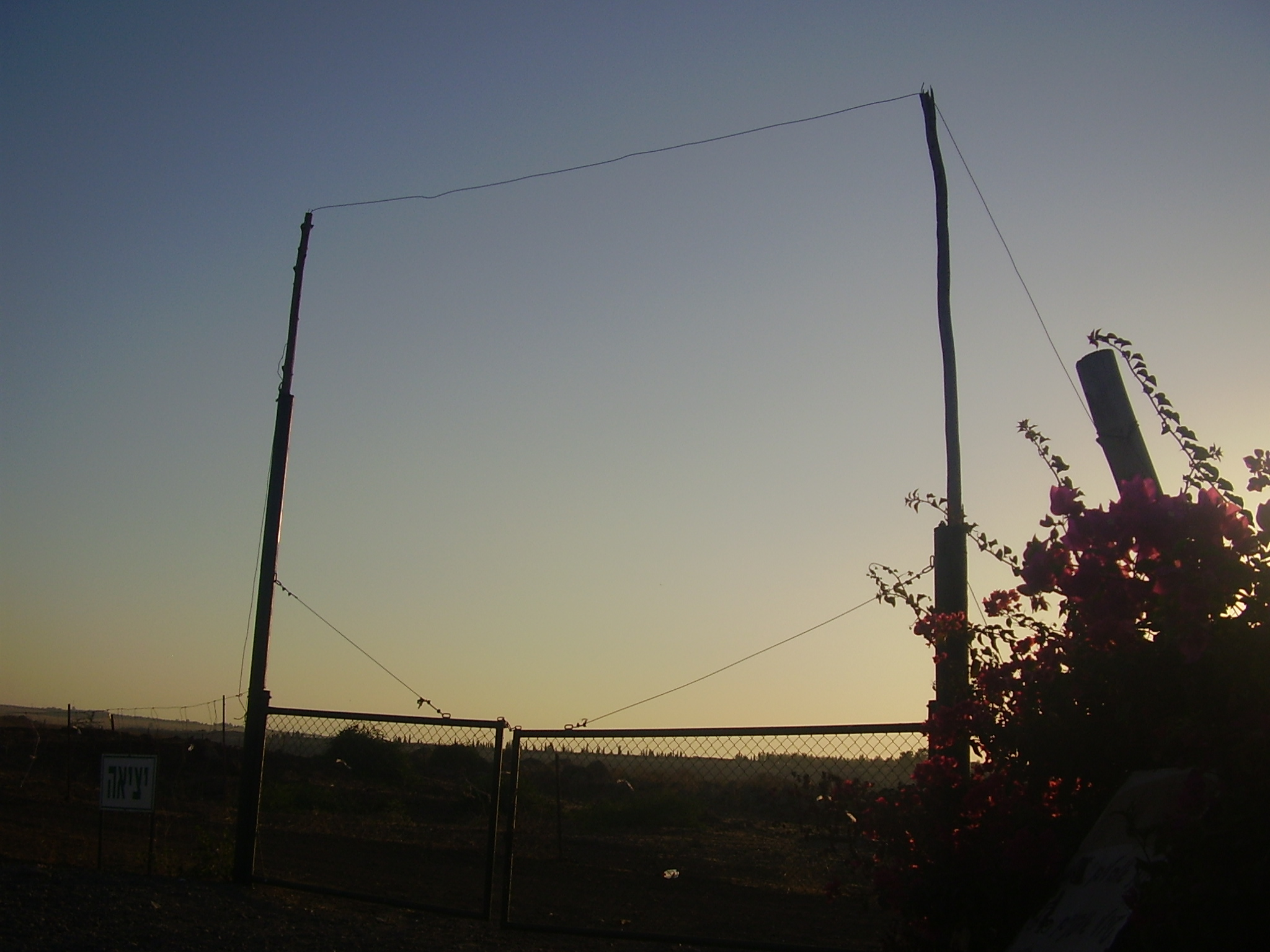 Tzurat Hapetach, part of Eruv, Avnei Eitan, Golan Heights